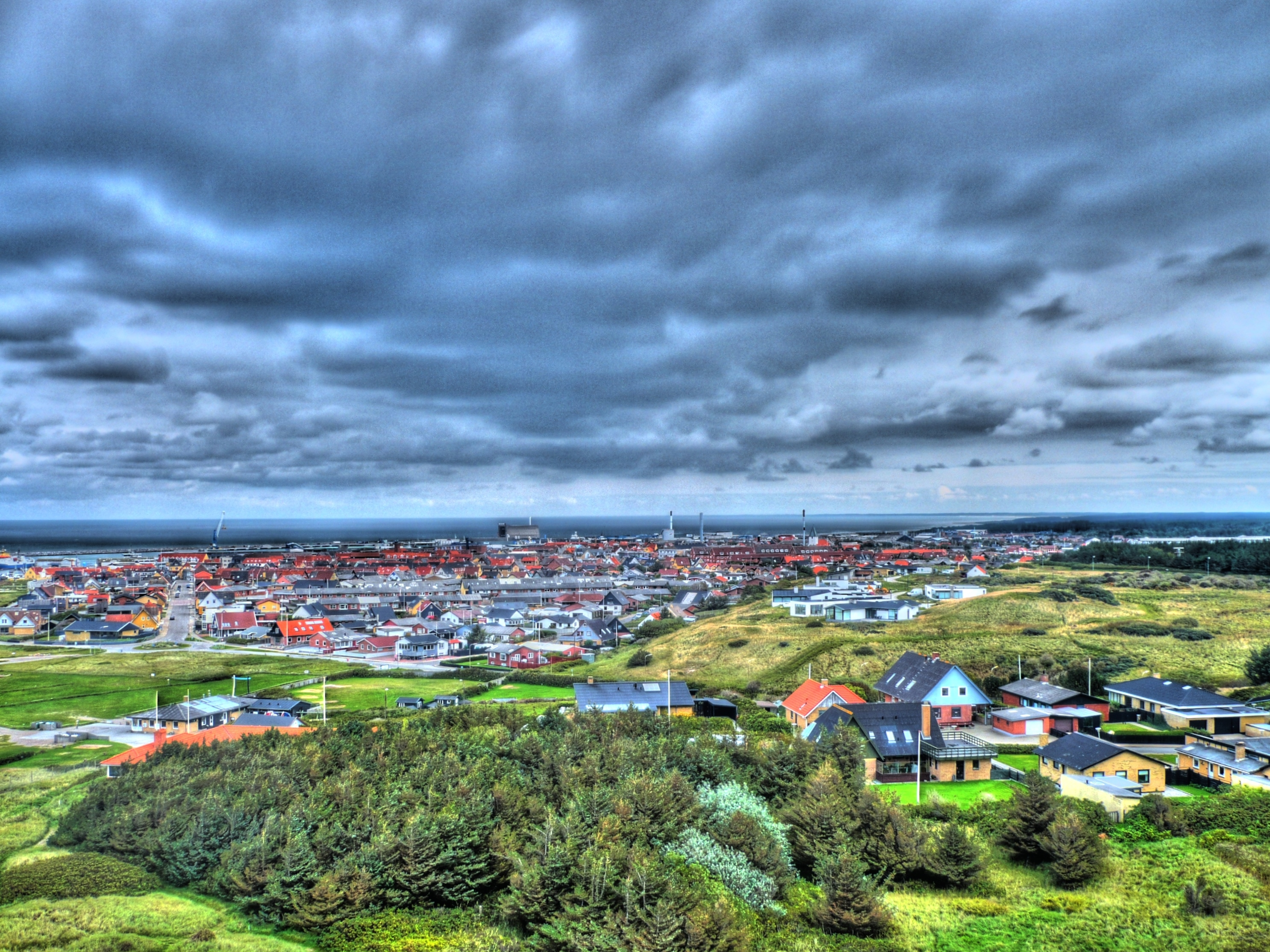 Overview of the town of Hirtshals